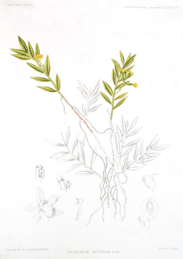 Gastrochilus distichus (Lindl.) Kuntze